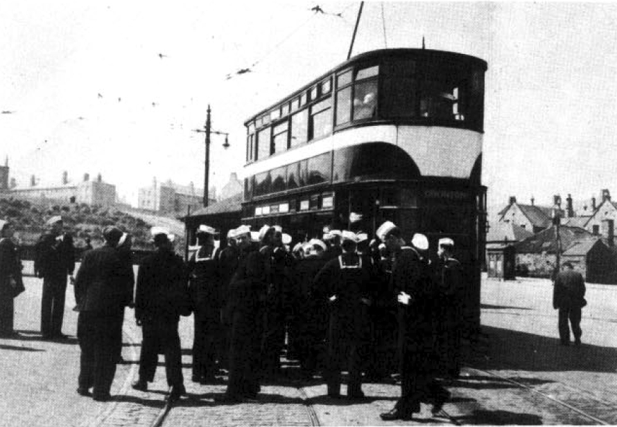 U.S. Navy sailors from the aircraft carrier USS Randolph (CV-15) in front of a double decker tram in Edinburgh, Scotland (UK).